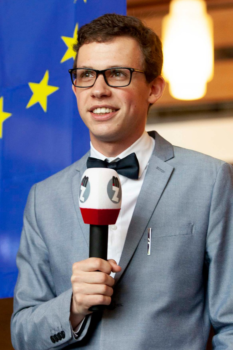 This picture shows Marco Zaremba hosting an event for the 2019 European elections on stage. It shows him "in action".